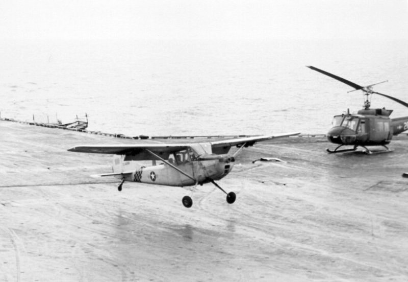 VNAF Major Buang lands his Cessna O-1 Bird Dog on the deck of USS Midway during Operation Frequent Wind